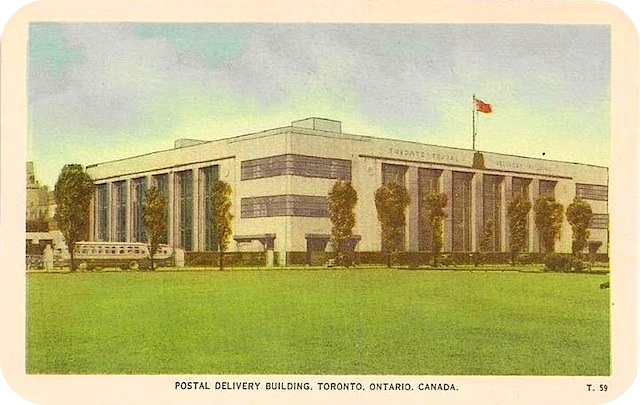 c. 1950s of the Toronto Postal Delivery Building which would be transformed into the Air Canada Centre in the 1980s.